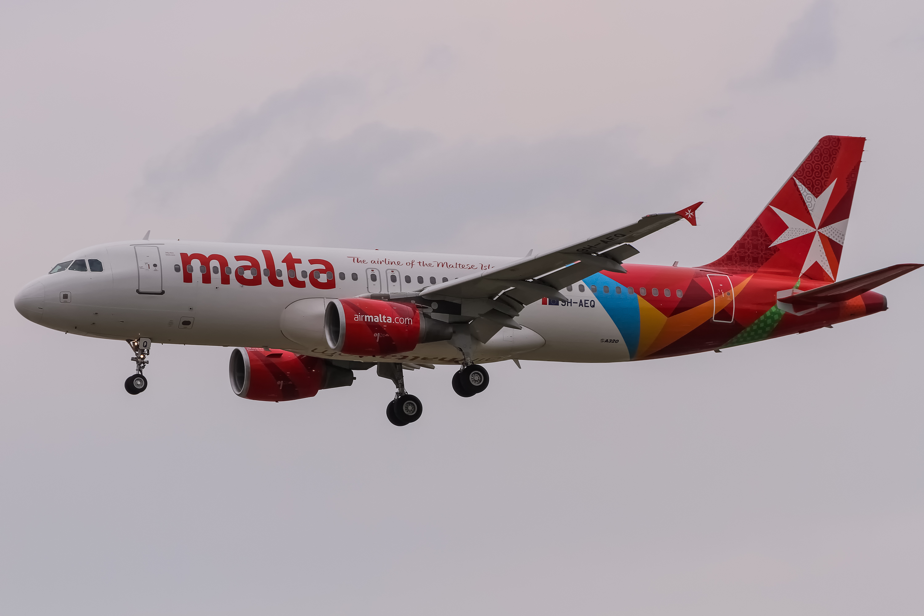 9H-AEQ Air Malta Airbus A320-214 coming in from Malta (LMML) @ Frankfurt (EDDF) / 14.05.2015